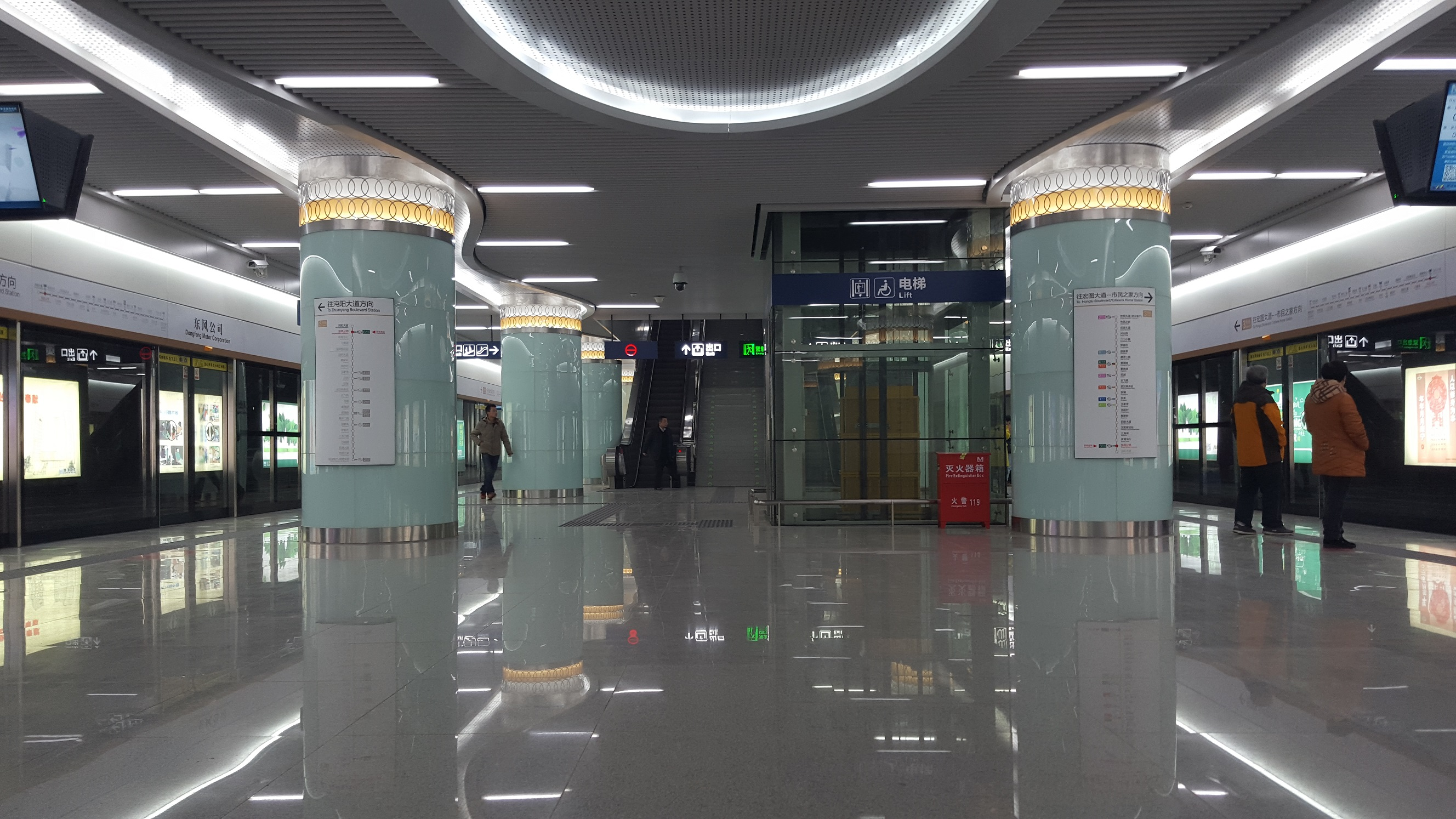 Platfrom of Dongfeng Motor Corporation Station, Wuhan Metro Line 3